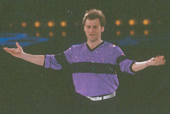 Viktor Petrenko skates an exhibition program at the 2002 Champions on Ice show in Buffalo, NY. Photo taken by me, Vesperholly 18:57, 17 July 2006 (UTC)